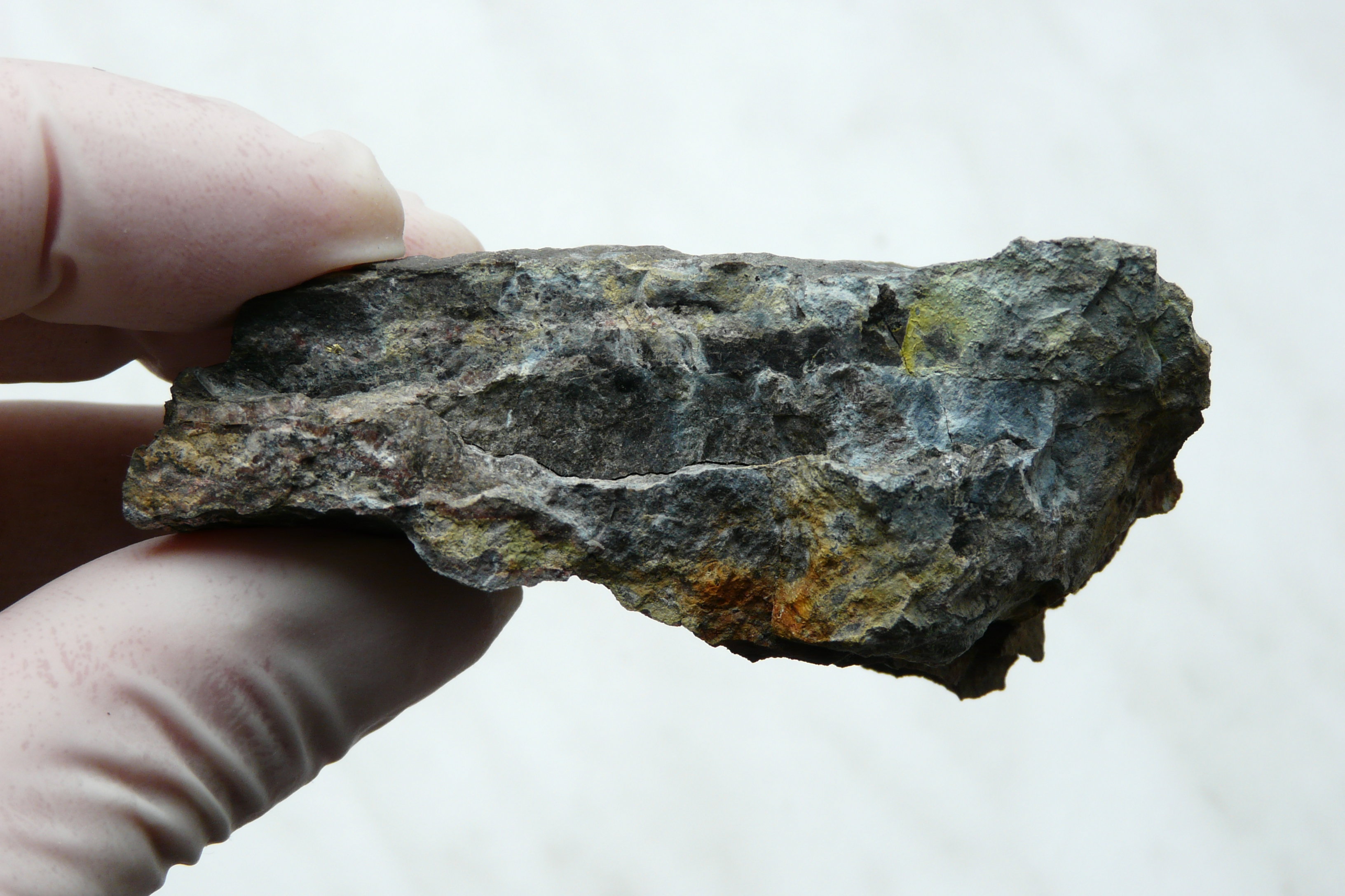 Uraninite from Jachymov Mining District (Czech Rep.)